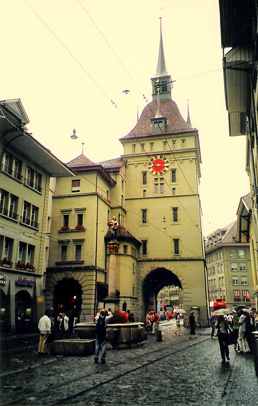 Bern -- Fountain on Marktgasse (Sellerbrunnen, 1549). Käfigturm behind the fountain